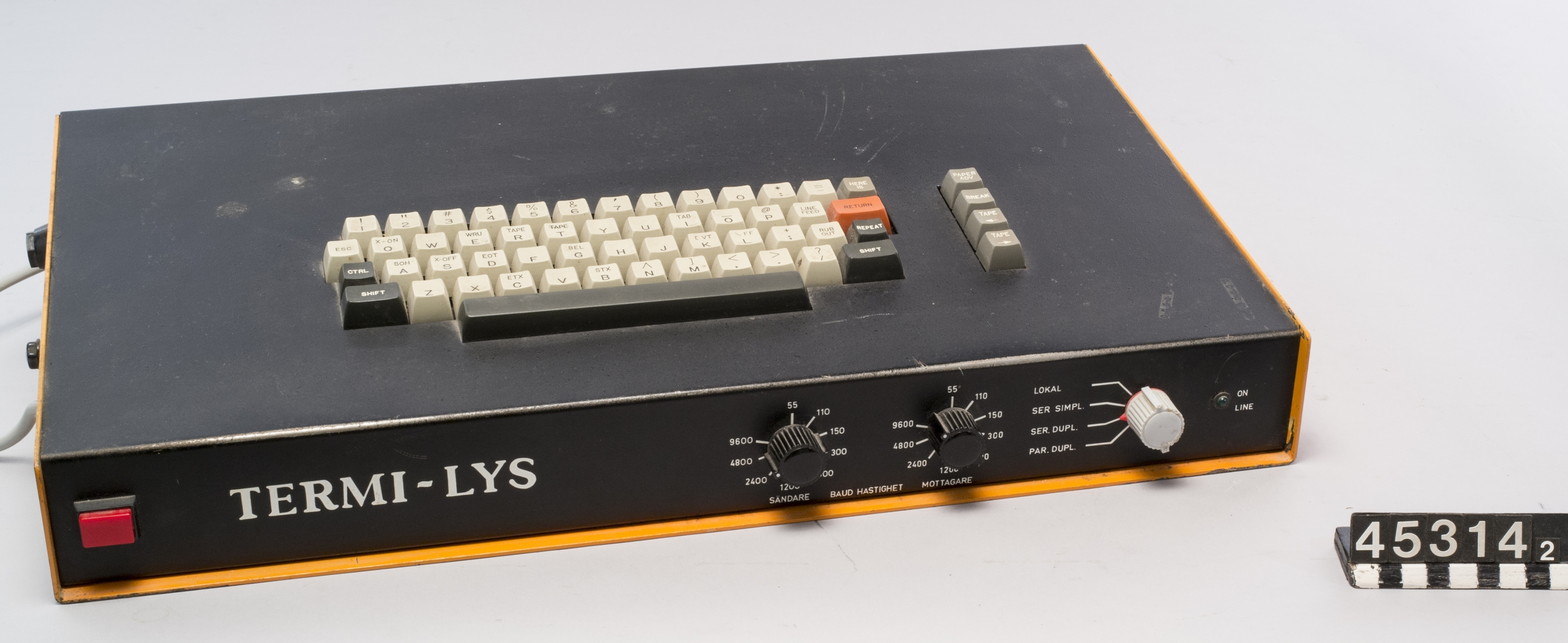 This terminal was used to get terminal input on a TV screen for the LYS-16 personal computer in the 1970ies.